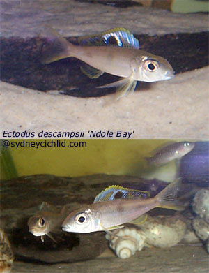 Ectodus descampsii Photo: Dr. David Midgley own photo, own fish. Also available here Category:Cichlid images